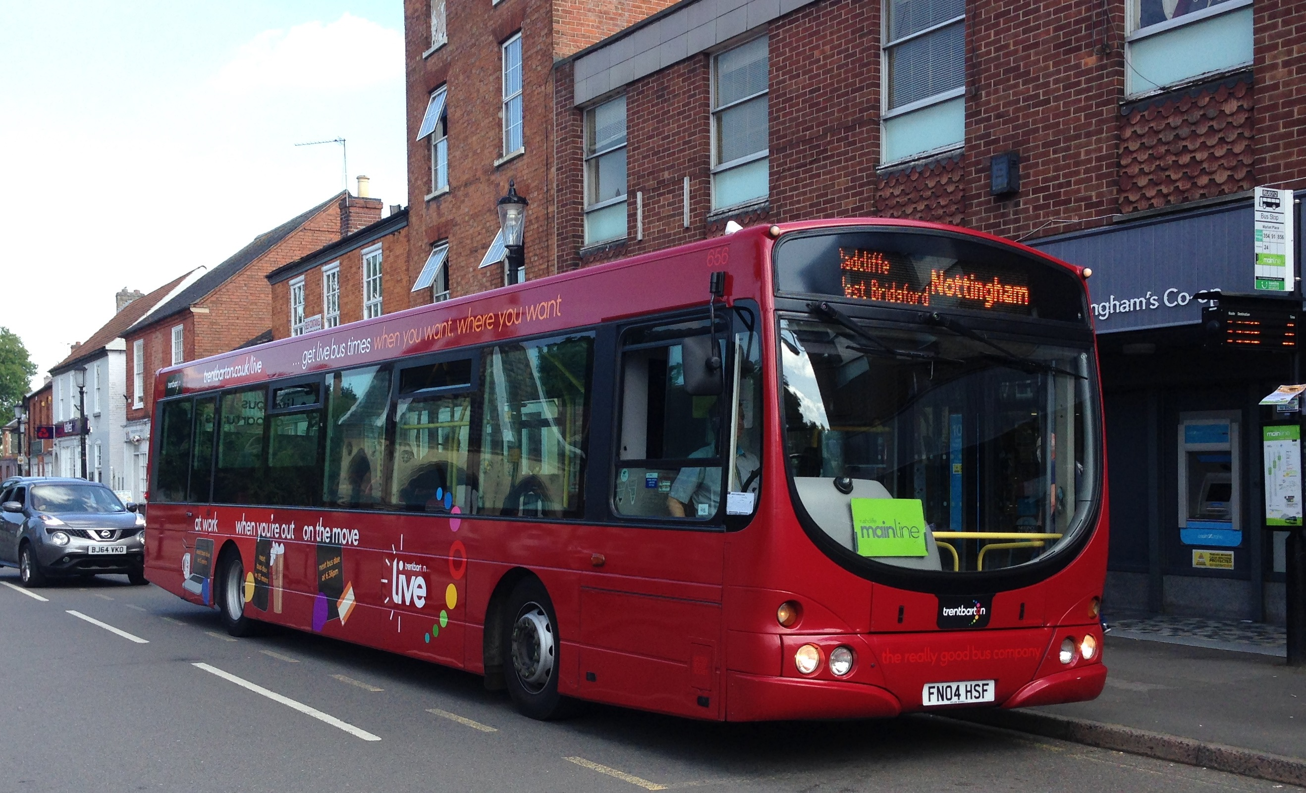 A Scania L94UB Wright Solar in Bingham, June 2017